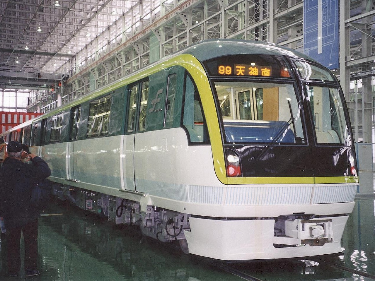 Fukuoka municipal subway series 3000 for Nanakuma Line